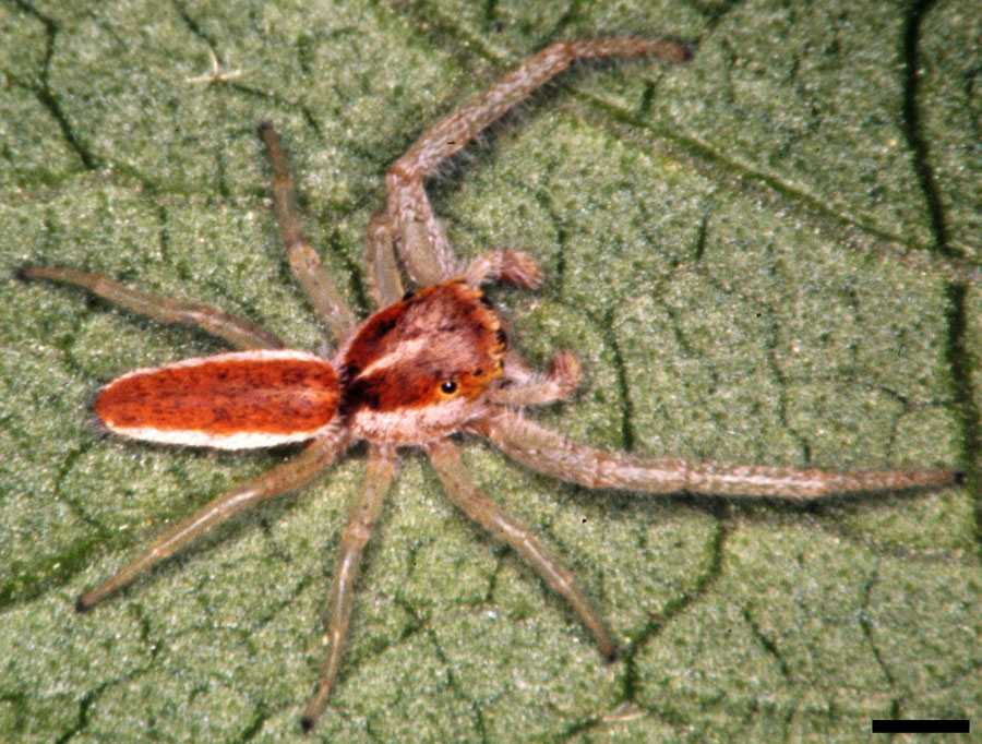 Male Hentzia mitrata jumping spider from Gainesville, Alachua County, Florida, USA